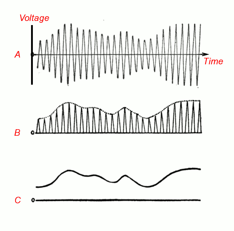 Graphs of the detection (demodulation) process for amplitude modulated (AM) radio signals, adapted from a 1922 radio book. (A) The amplitude modulated signal applied to the detector. (B) The signal at the output of the detector. The detector allows current in only one direction, stripping off the excursions of the signal on one side. (C) After filtering. The filter smoothes the output, removing the radio frequency carrier pulses, leaving the audio frequency signal (modulation). Alterations to image: added vertical axis to top drawing, and colored labels.